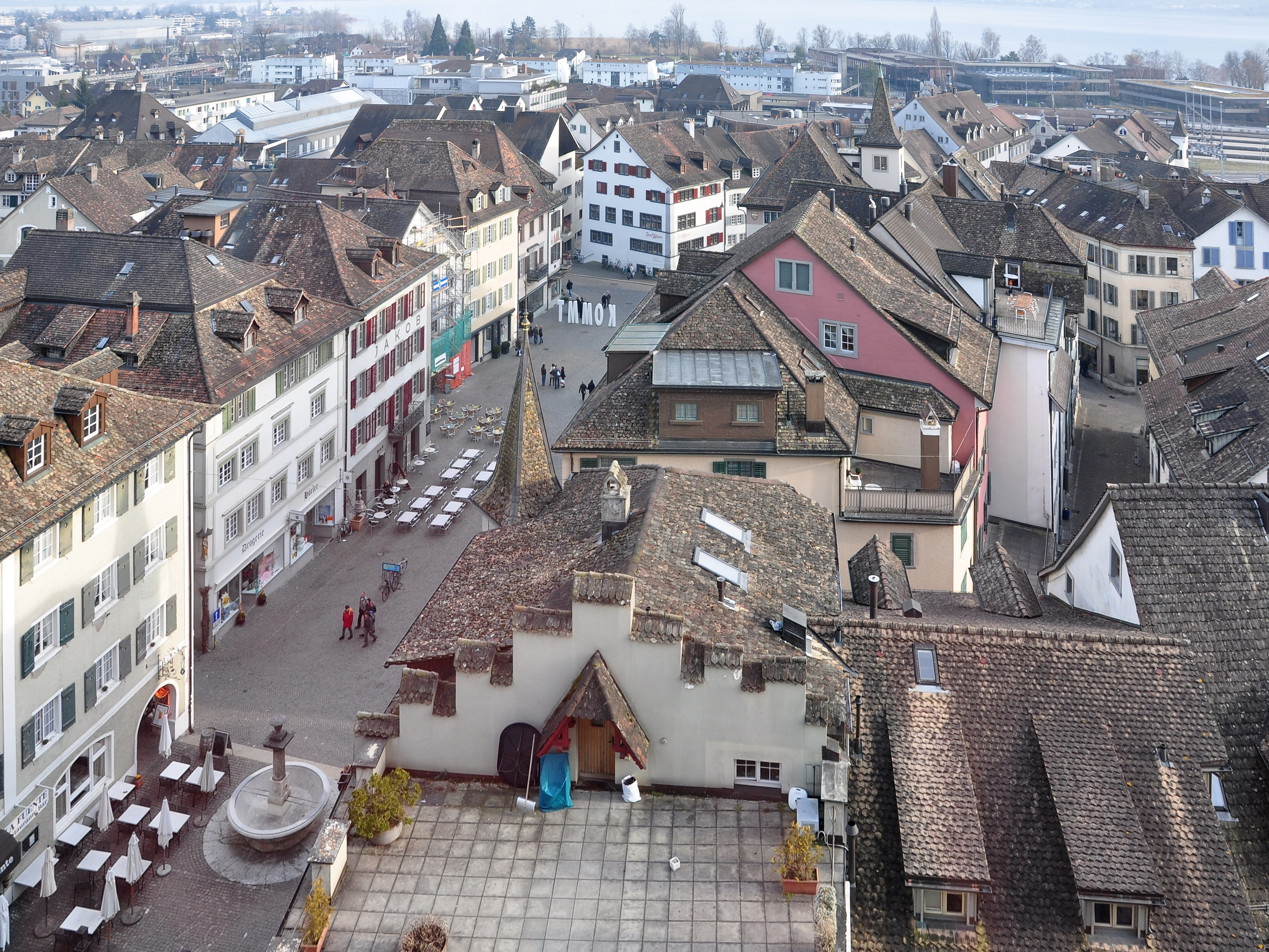 Hauptplatz and Altstadt in Rapperswil (Switzerland) as seen from the palas of Schloss Rapperswil